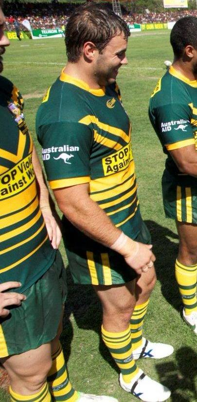 PNG PM Peter O'Neill meeting the players. Photo Credit: Mike Wightman, AusAID. To request copyright use and access to high-res version of this photo